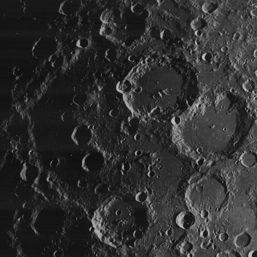 Lorentz lunar crater - part of the image LO-IV-188